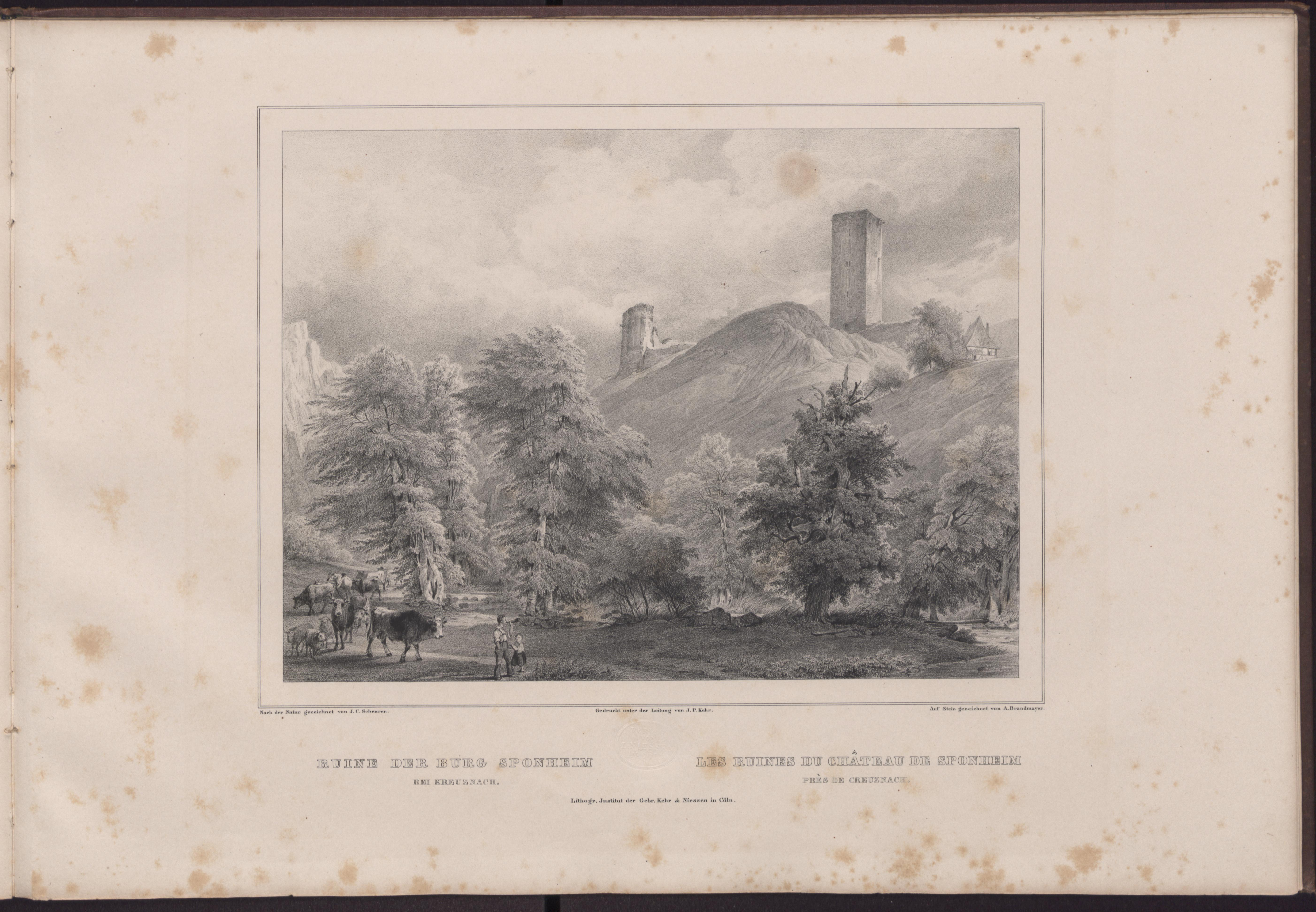 Picture of the Ruins of Castle Sponheim (presently Burgsponheim, Rüdesheim, Bad Kreuznach, Rhineland-Palatinate)